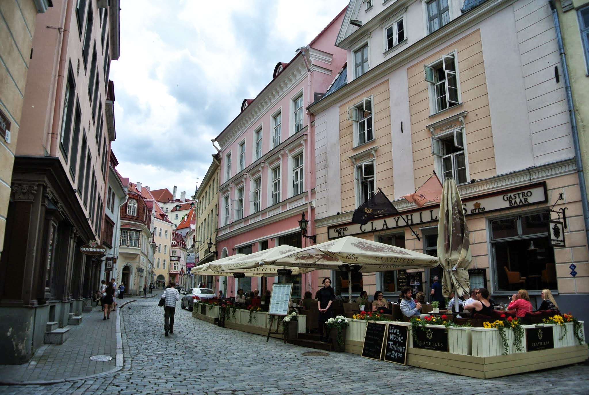 Old Town of Tallinn, Tallinn, Estonia